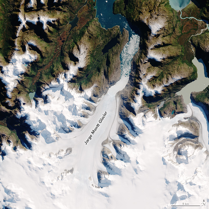 Detailed images provide a closer look at some of the icefield’s largest, most notable glaciers. Jorge Montt, located on the north end of the South Patagonian Icefield, flows south to north and empties into a fjord that ultimately angles west toward the Pacific Ocean. Since the mid 1980s, the speed of ice flow has fluctuated, with particularly spectacular retreat events documented in the 1990s. In all, the glacier retreated 13 kilometers between 1984 and 2014. In this image above, you can clearly see the glacier’s former extent in the 1980s, visible as the tan-gray area devoid of vegetation around the ice. This glacier has thinned and retreated so fast that vegetation has not yet had a chance to fill in. During peak retreat, the glacier was thinning vertically at a rate of 31 meters (100 feet) per year. “When we flew over this glacier in 2014 to survey its thickness,” Rignot recalled, “the airplane was at an altitude that would have put us inside the glacier in the 1980s.”